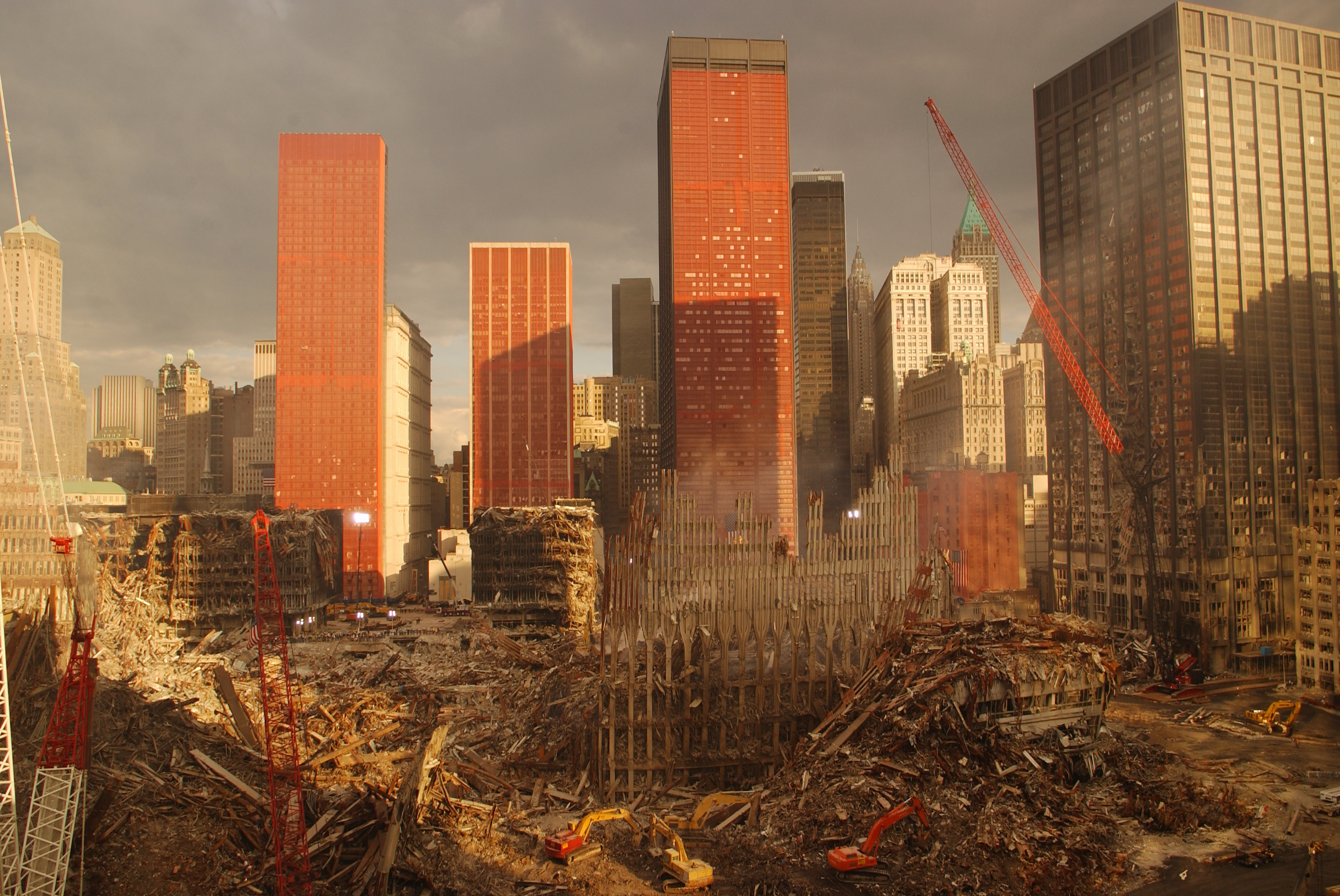 New York, NY, September 28, 2001 -- A view of the recovery operation underway from a roof adjacent to the World Trade Center. Photo by Andrea Booher/ FEMA News Photo